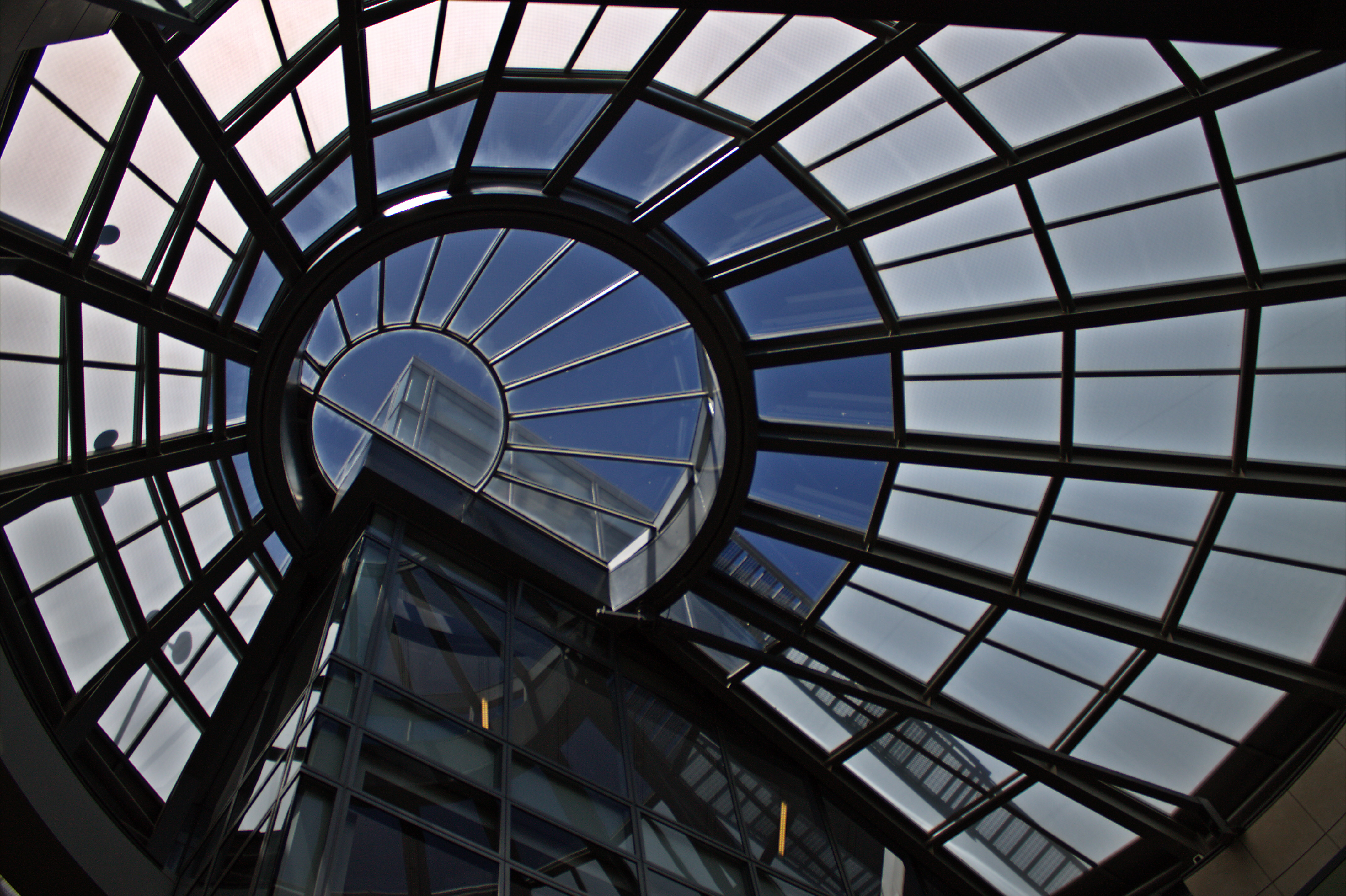 Light and shadow cast by skylight in San Francisco Public Library.